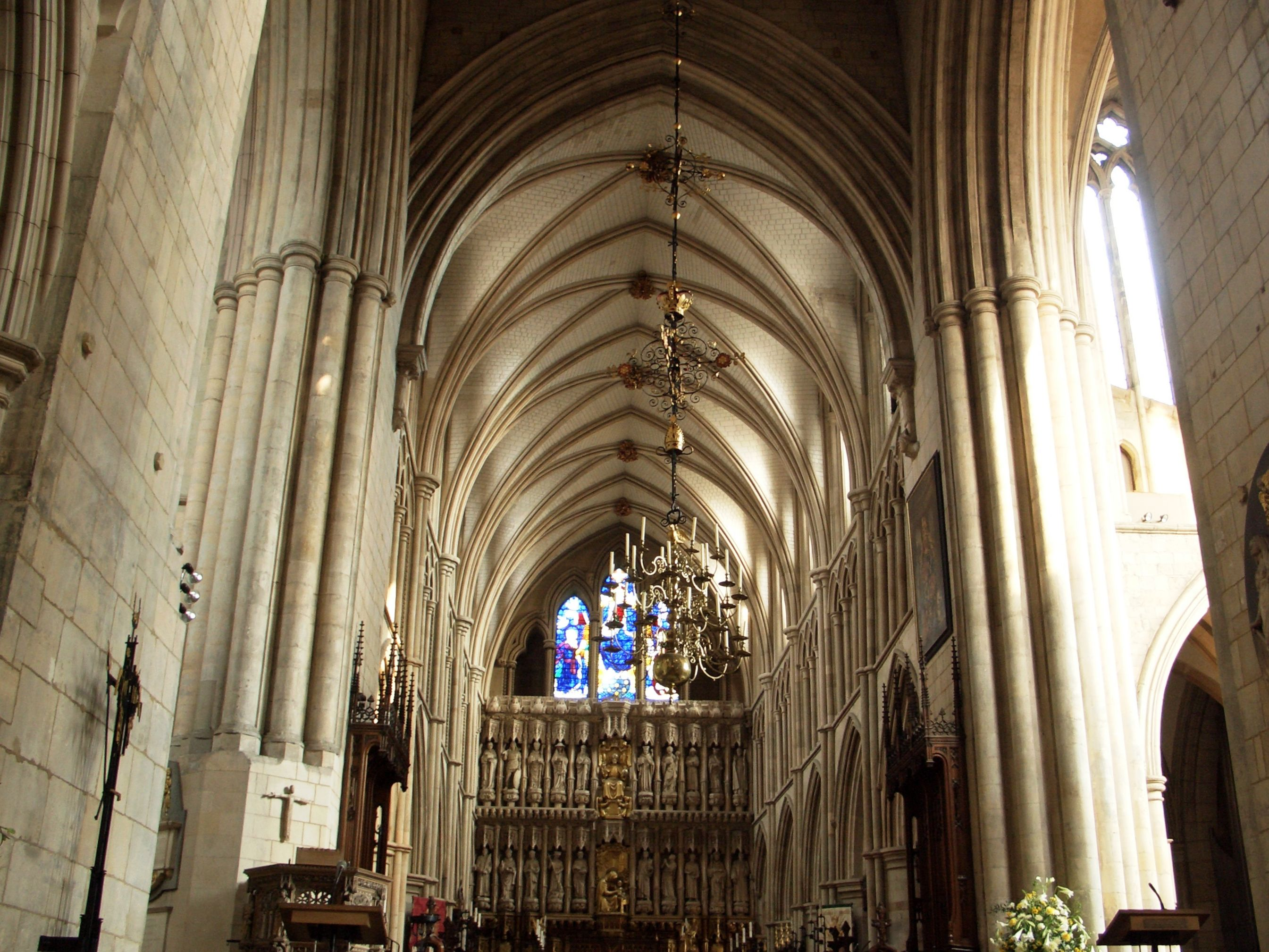 Londres - Catedral de Southwark - Interior